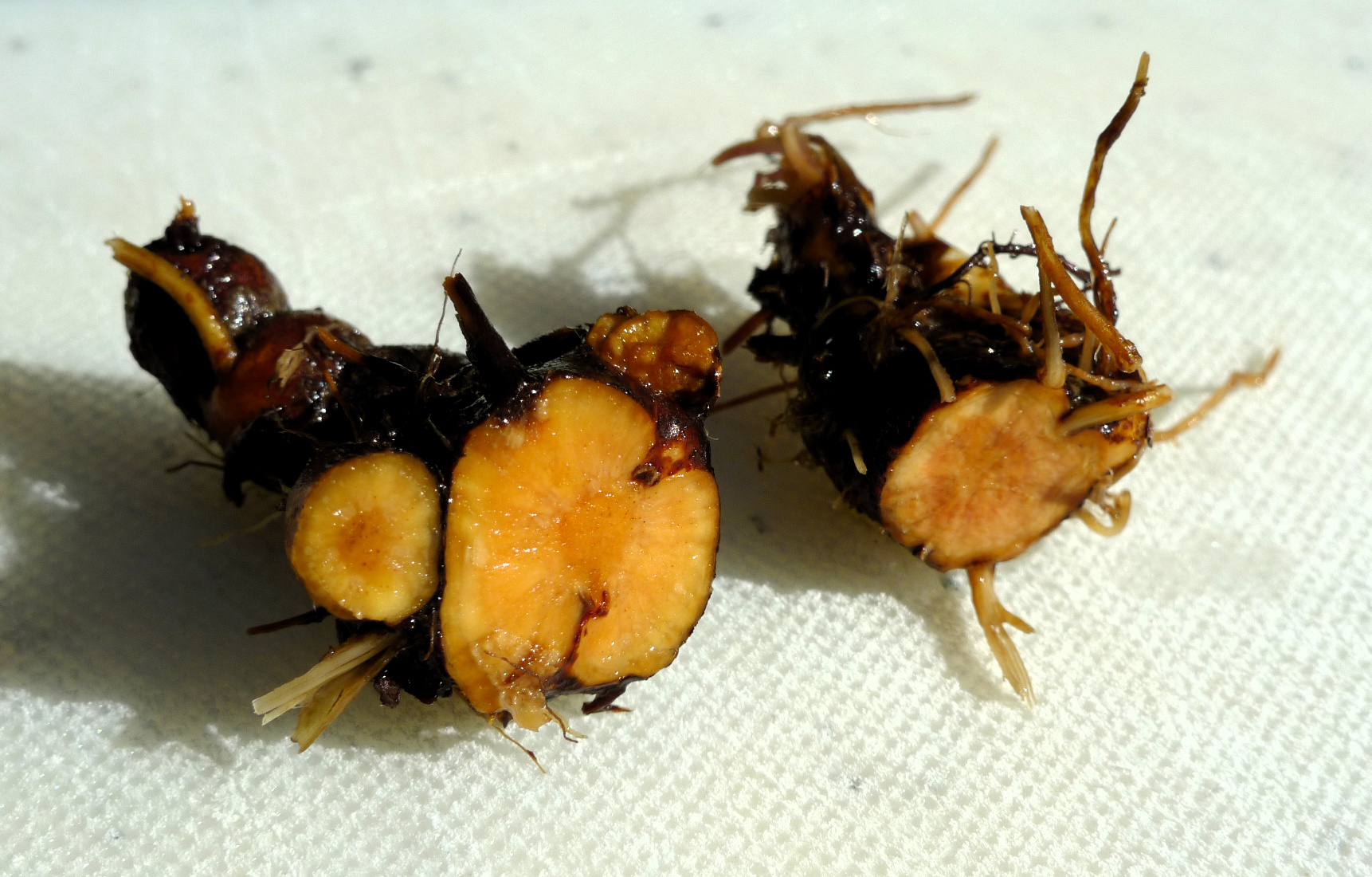 Sliced rhizome of the Common Tormentil (Potentilla erecta)